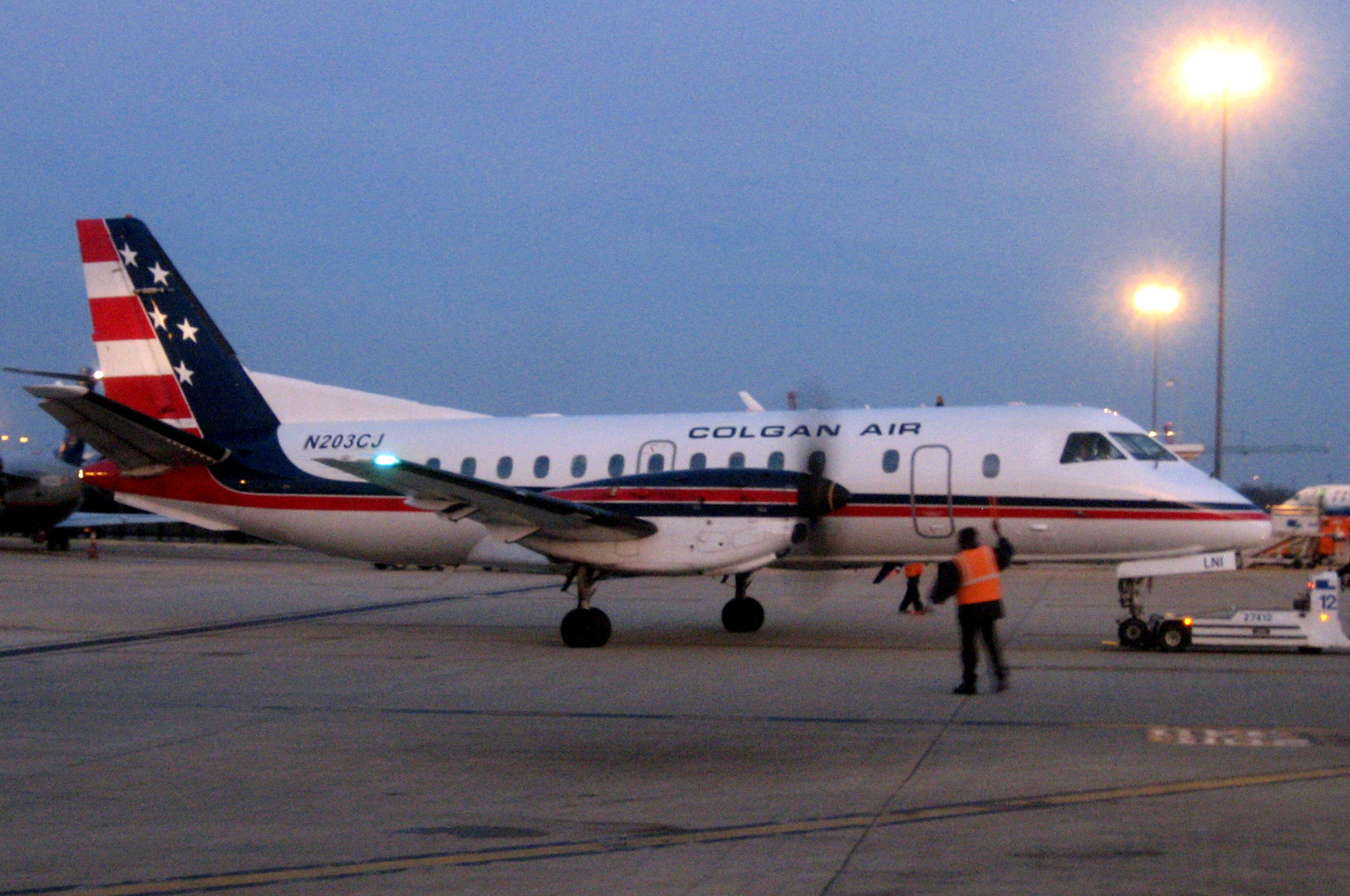 Colgan Air Saab 340B (N203CJ) at Washington Dulles International Airport